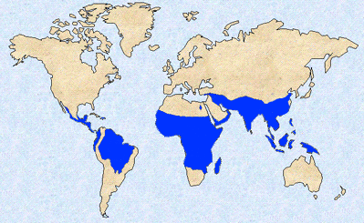 Worldwide distribution of malaria